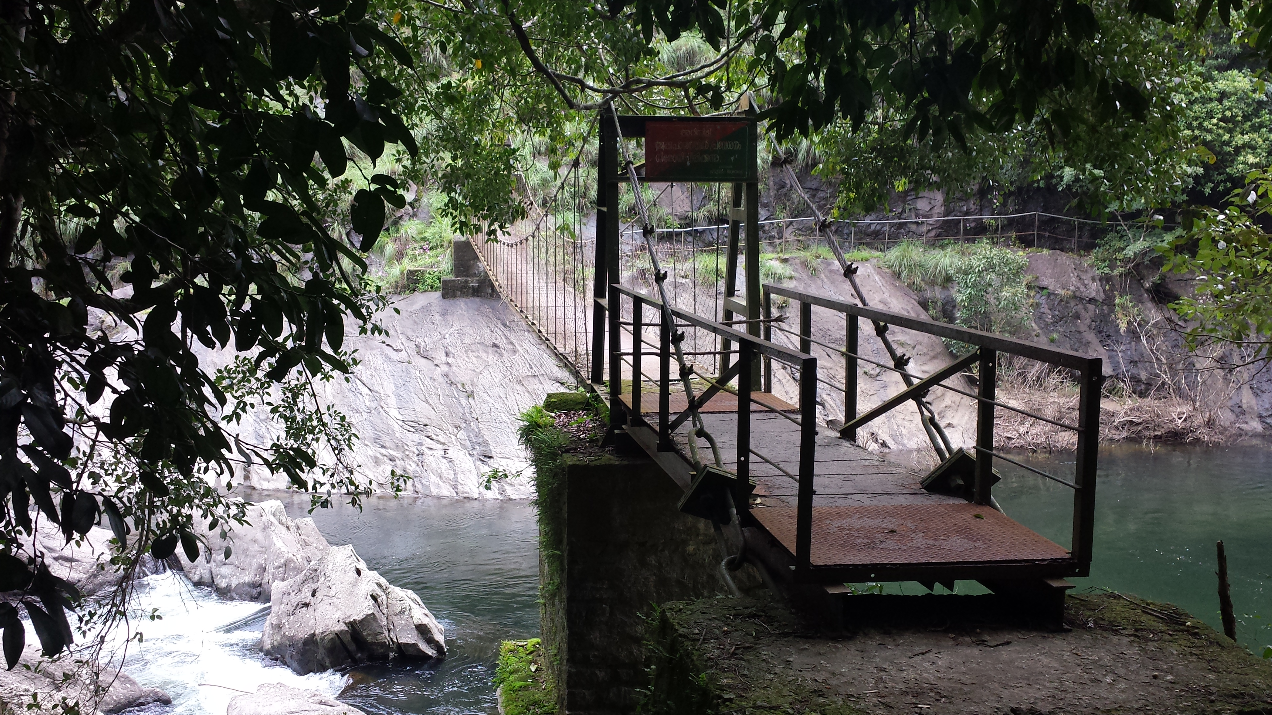 Silent Valley National Park Bridge